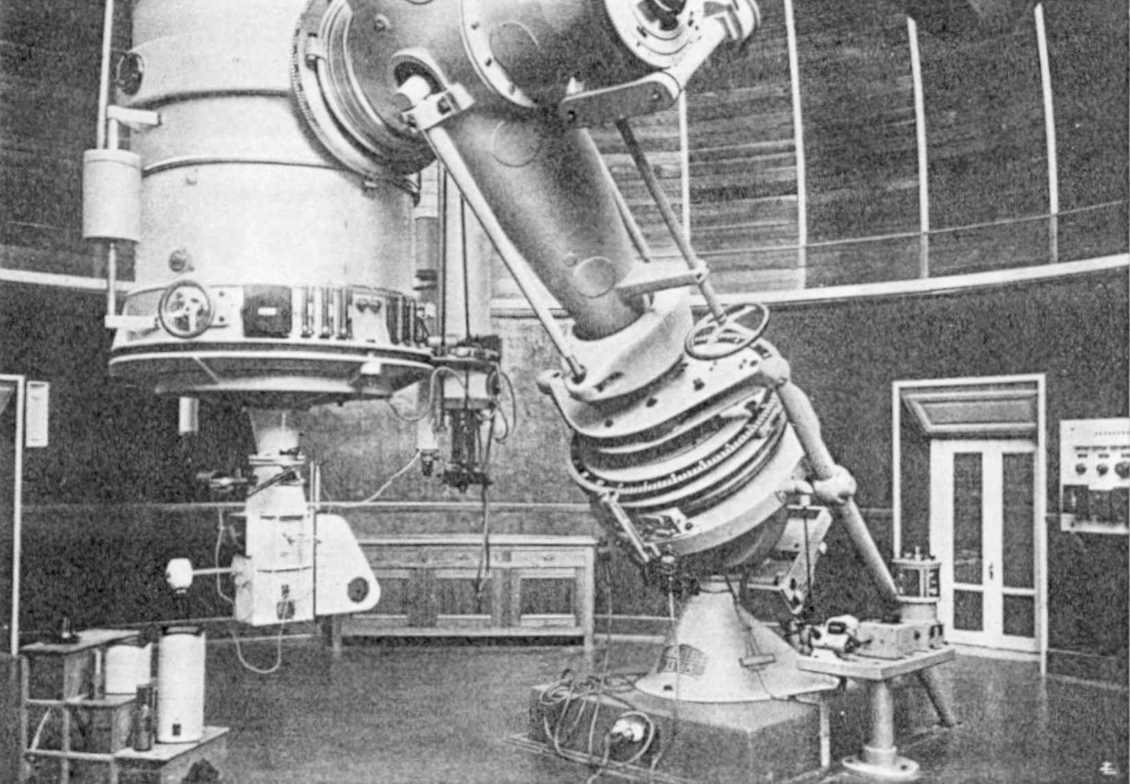 1 meter Zeiss telescope at Merate Astronomical Observatory, Merate (LC), Italy, with the Zeiss spectrograph mounted at the Cassegrain focus.